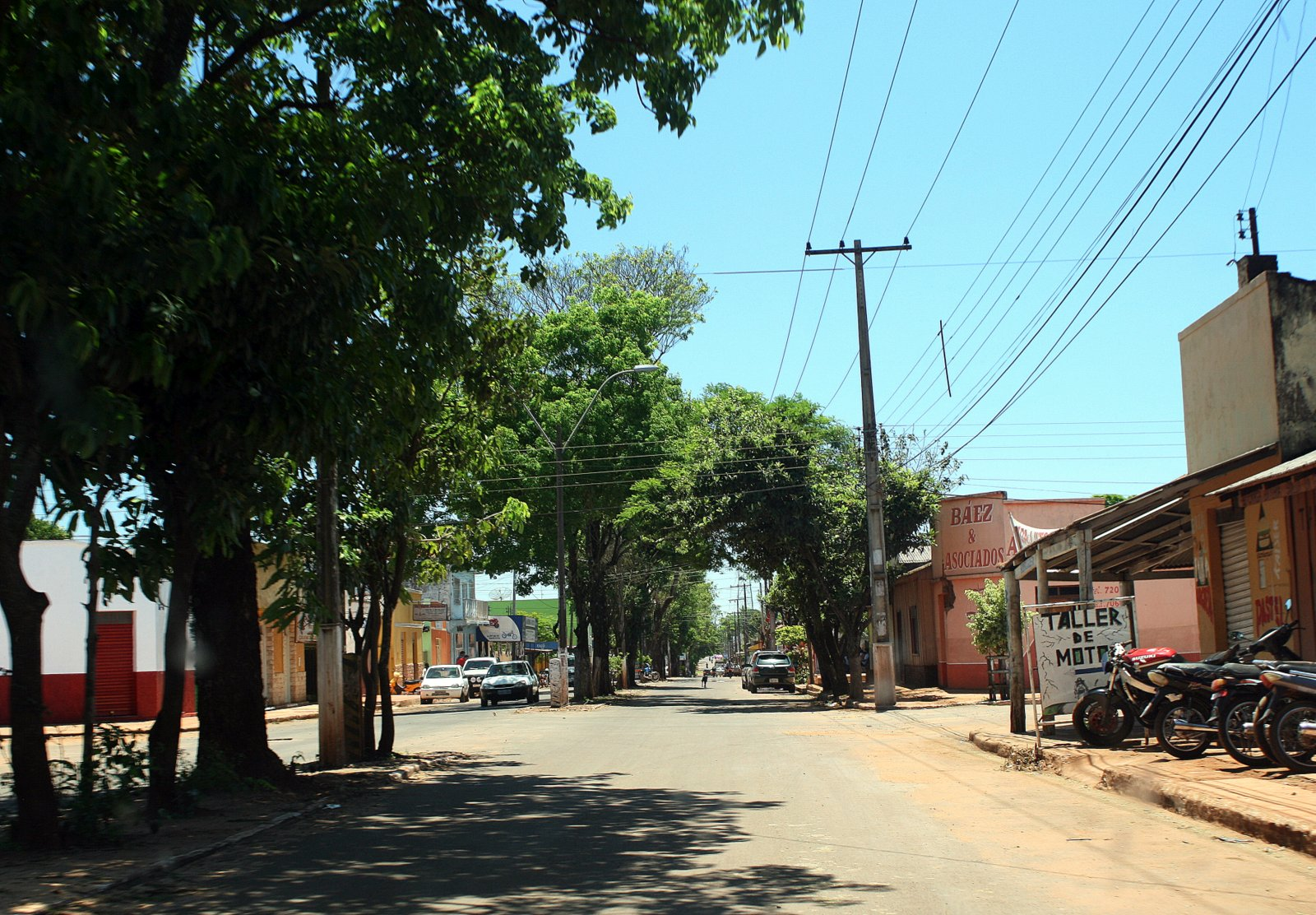 Avenida Teniente Herraro in Pedro Juan Caballero